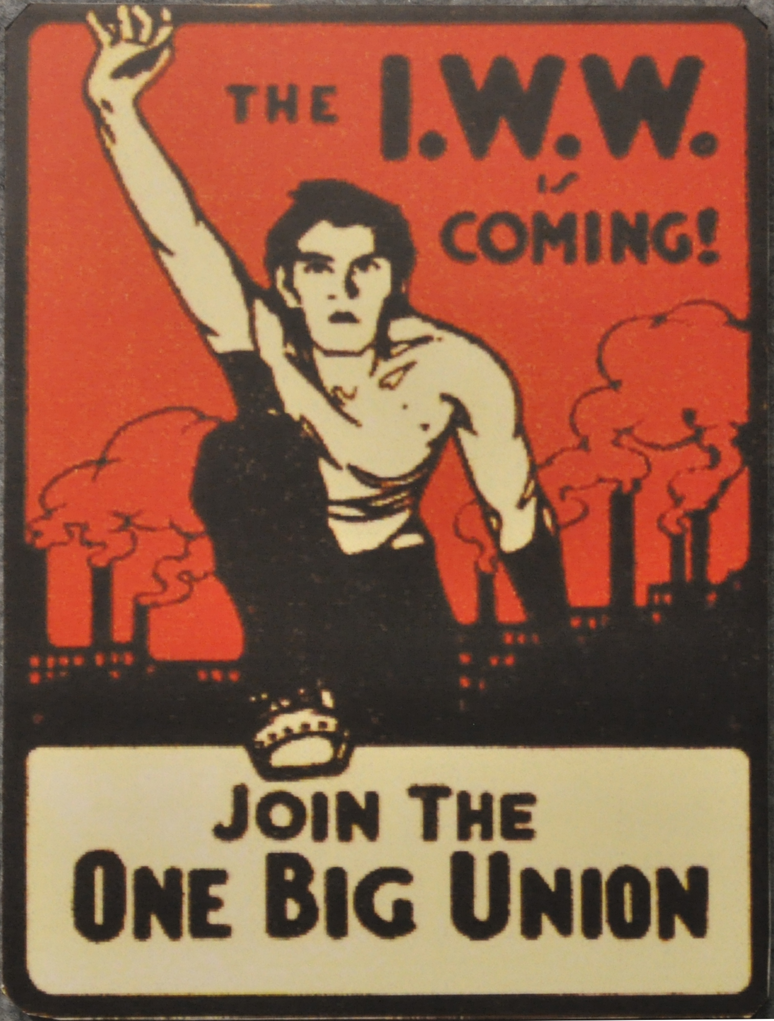 Industrial Workers of the World "One Big Union" sticker, photographed at the temporary exhibit "Weavers, Wobblies, and Woe," Edmonds Historical Museum, Edmonds, Washington, USA.